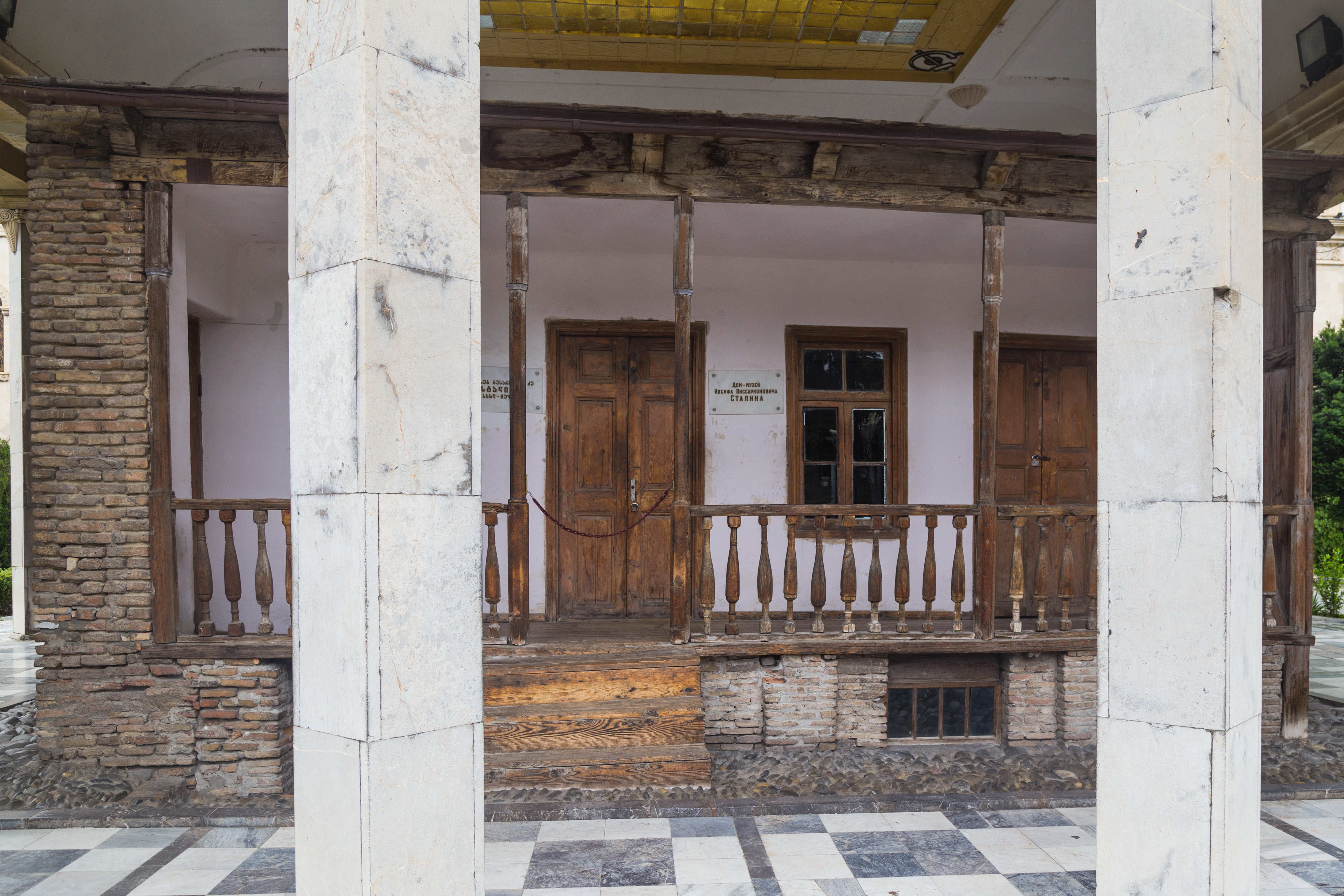 Joseph Stalin Museum - Stalin's house. Gori, Shida Kartli, Georgia.